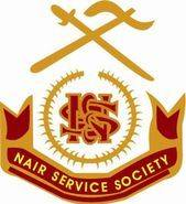 Official logo of Nair Service Society, based out of Changanacherry, Kerala